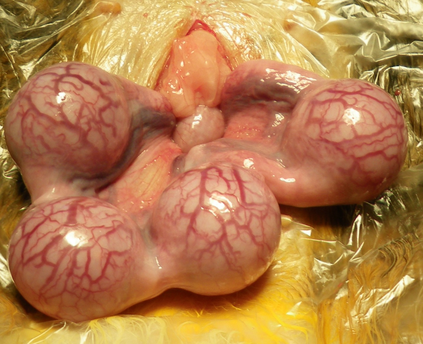 gravid uterus of a domestic cat